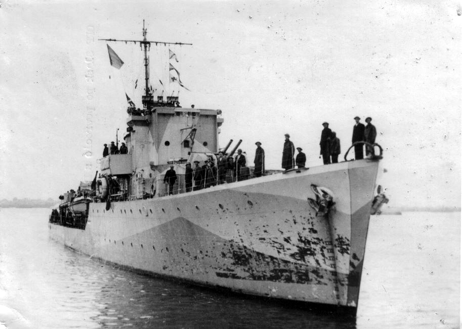 Polish destroyer ORP Ślązak returning home after the Dieppe Raid